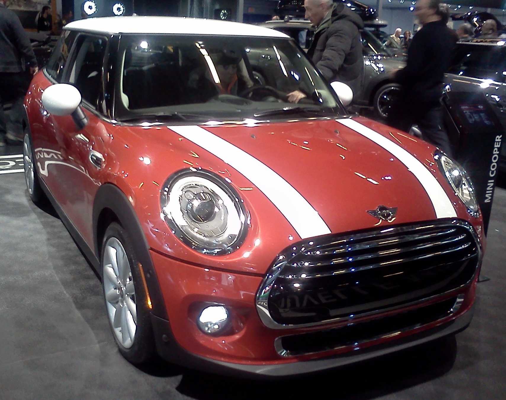 2014 Mini Cooper photographed in Montreal, Quebec, Canada at the 2014 Montreal International Auto Show.